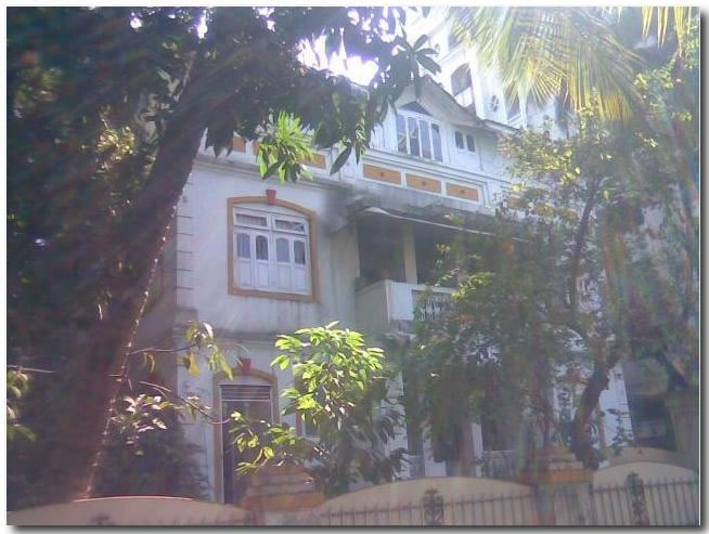 Home of Sai Baba's Devotee Hemadpant